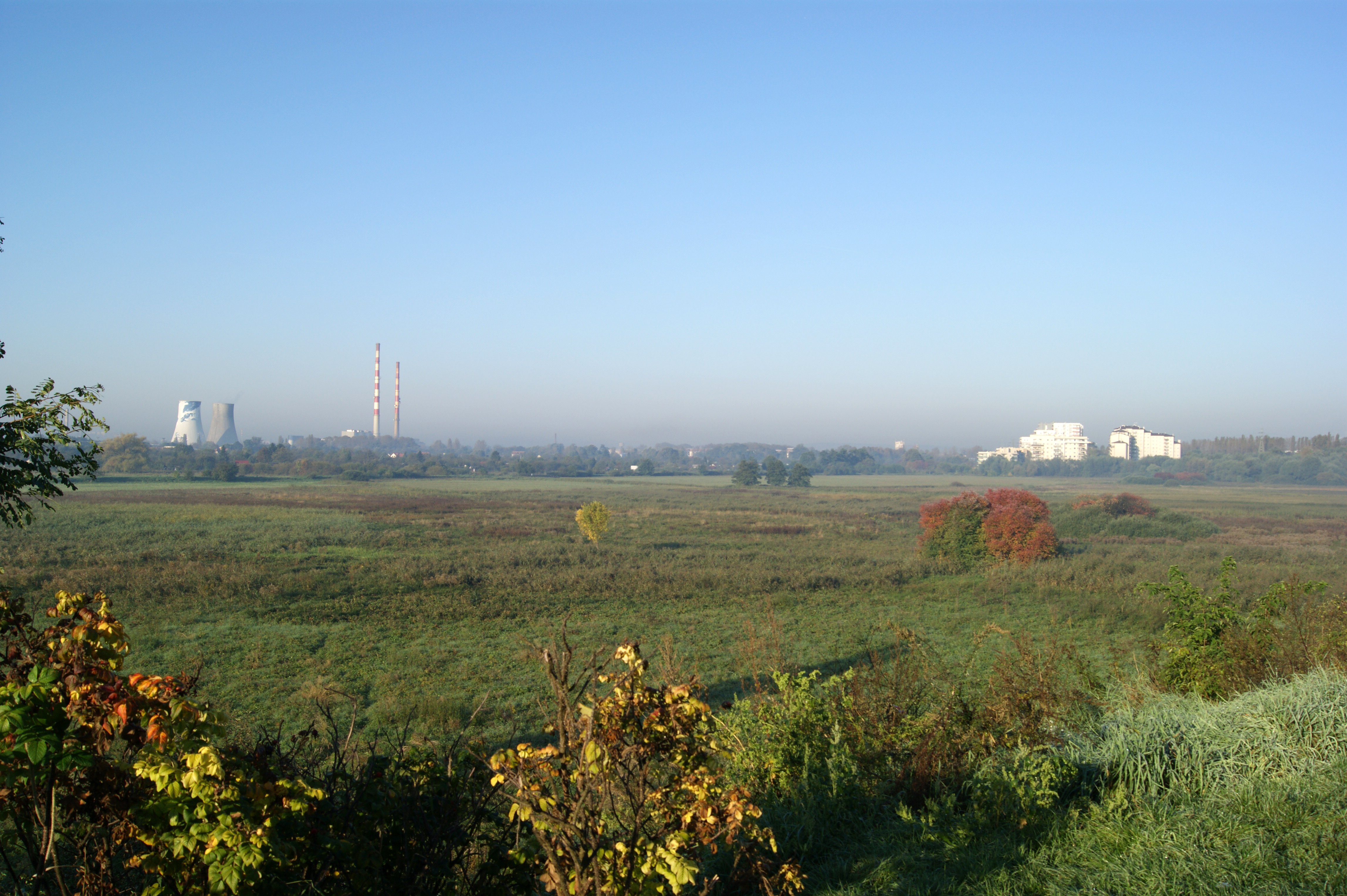 Nowa Huta Meadows,Nowa Huta,Krakow,Poland